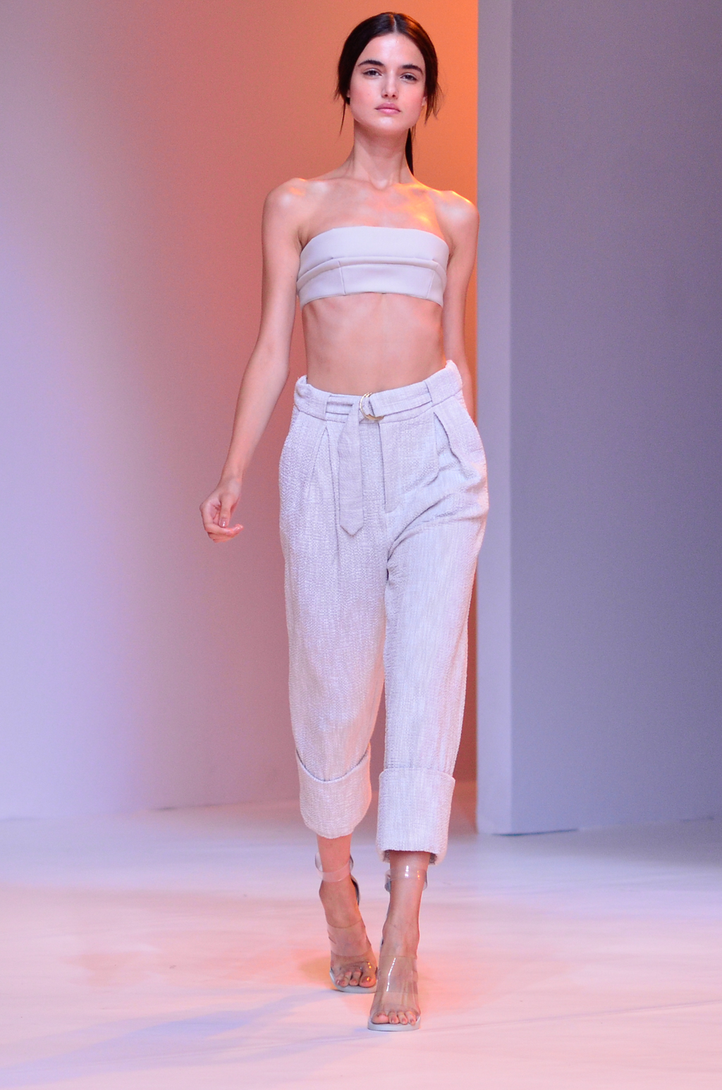 Blanca Padilla walking the runway for Porsche Design.